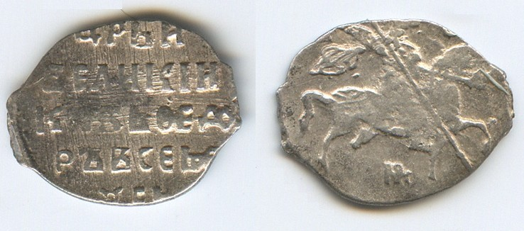 Muscovite silver coin presumably of Fedor Godunov, 1605(?)